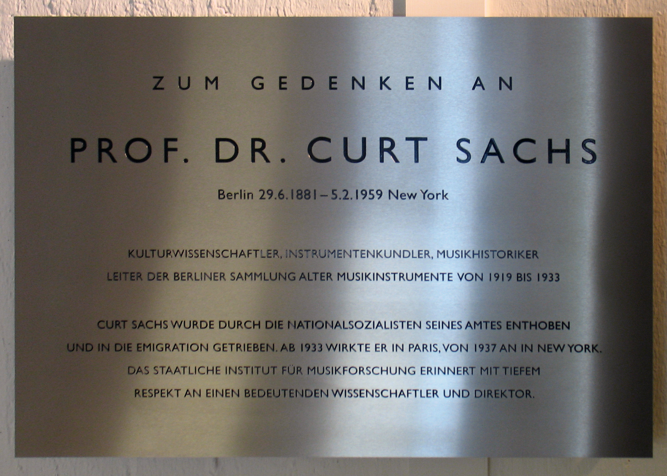 Memorial plaque, Curt Sachs, Ben-Gurion-Straße 1, Berlin-Tiergarten, Deutschland